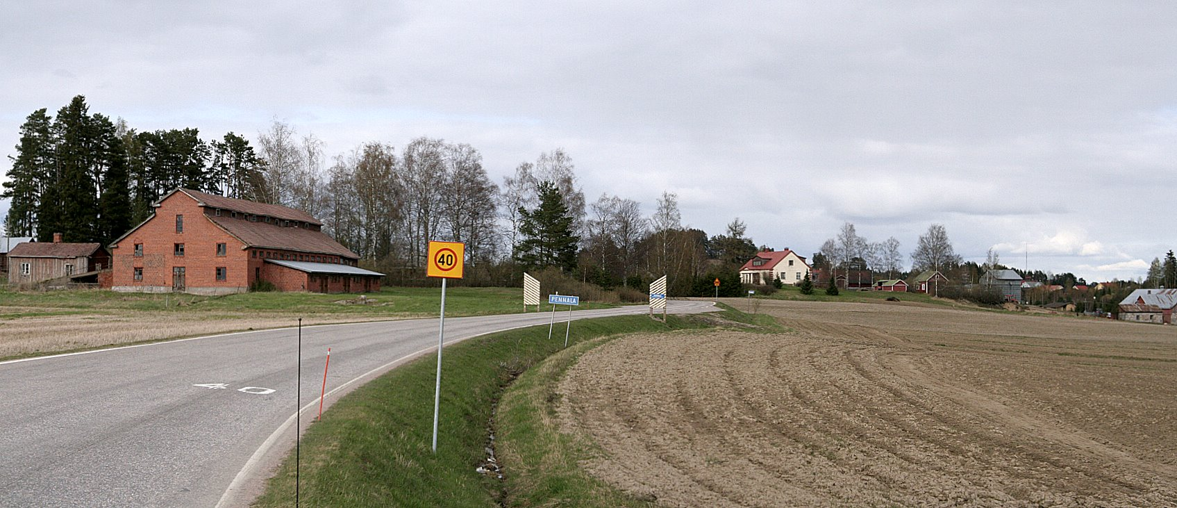 Pennalantie road (local road 11845) in Pennala village, town of Orimattila, Finland